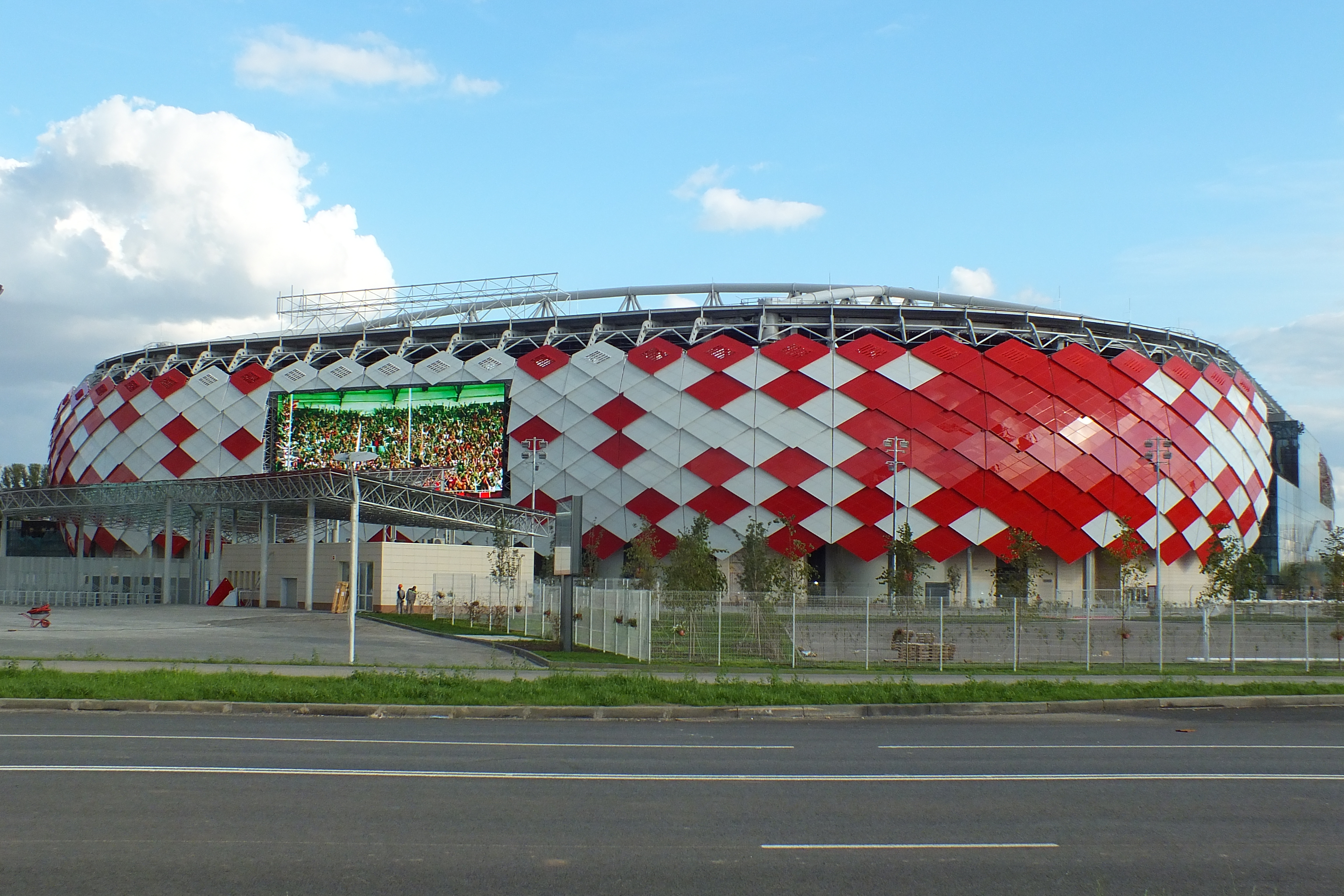 Otkrytie Arena (or Spartak Stadium) on August 23, 2014 in Moscow